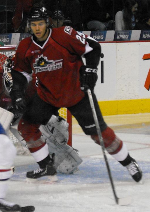 Taken 11/30/2013 @ Copps Coliseum, Hamilton, ON